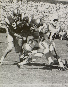 Photograph of Larry Libertore, University of Florida's quarterback, gaining yardage as Sam Holland (80) takes out two Seminoles.